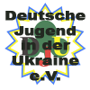 Logo of the Ukrainan NGO "Deutsche Jugend in der Ukraine"